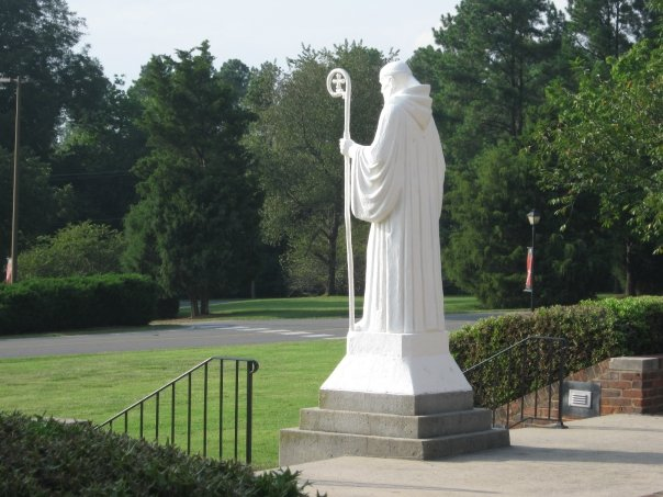 Statue of St. Benedict outside of Belmont Abbey College.